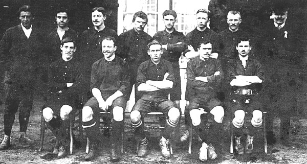 Belgium national football team on 29 April 1906 before their match against the Netherlands